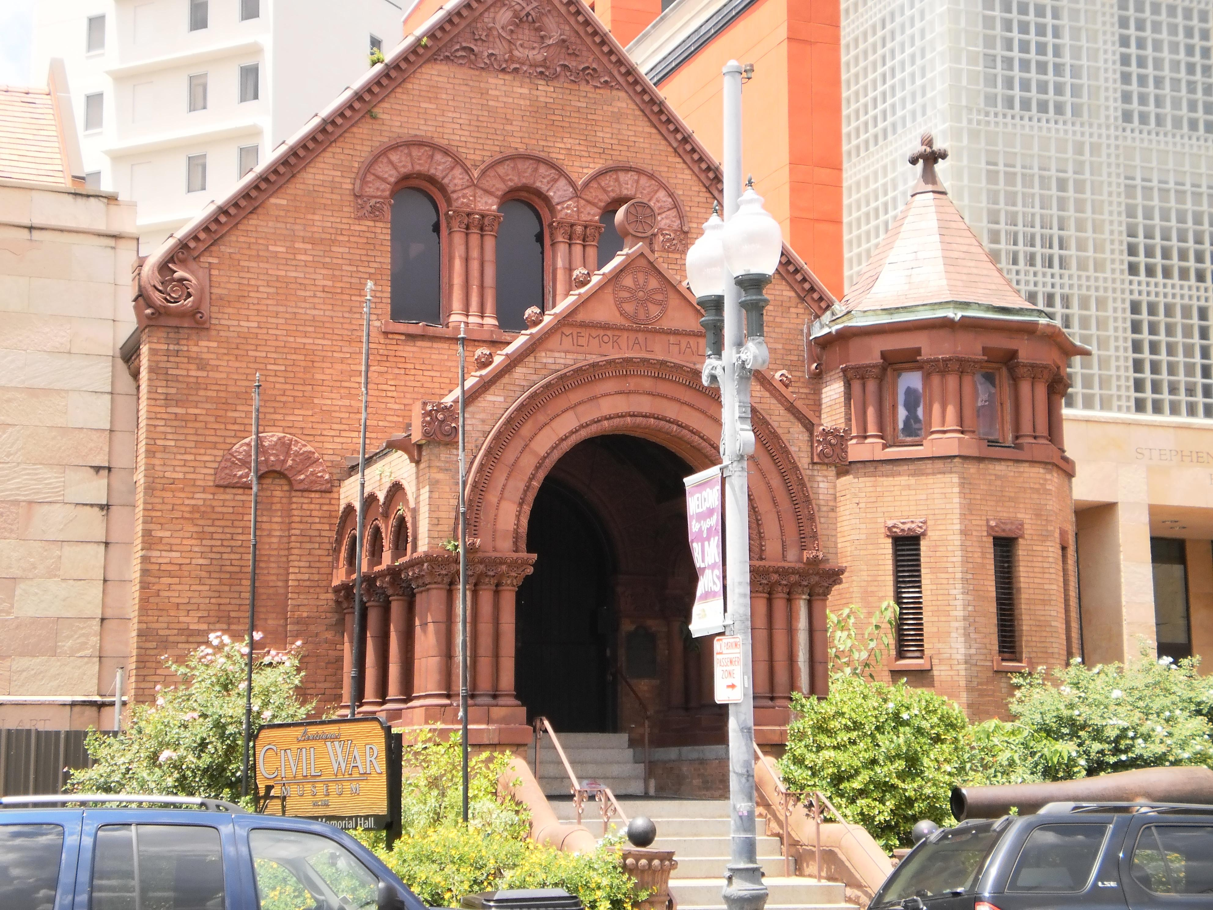 Entrance to the CIvil War Museum in New Orleans, Louisiana